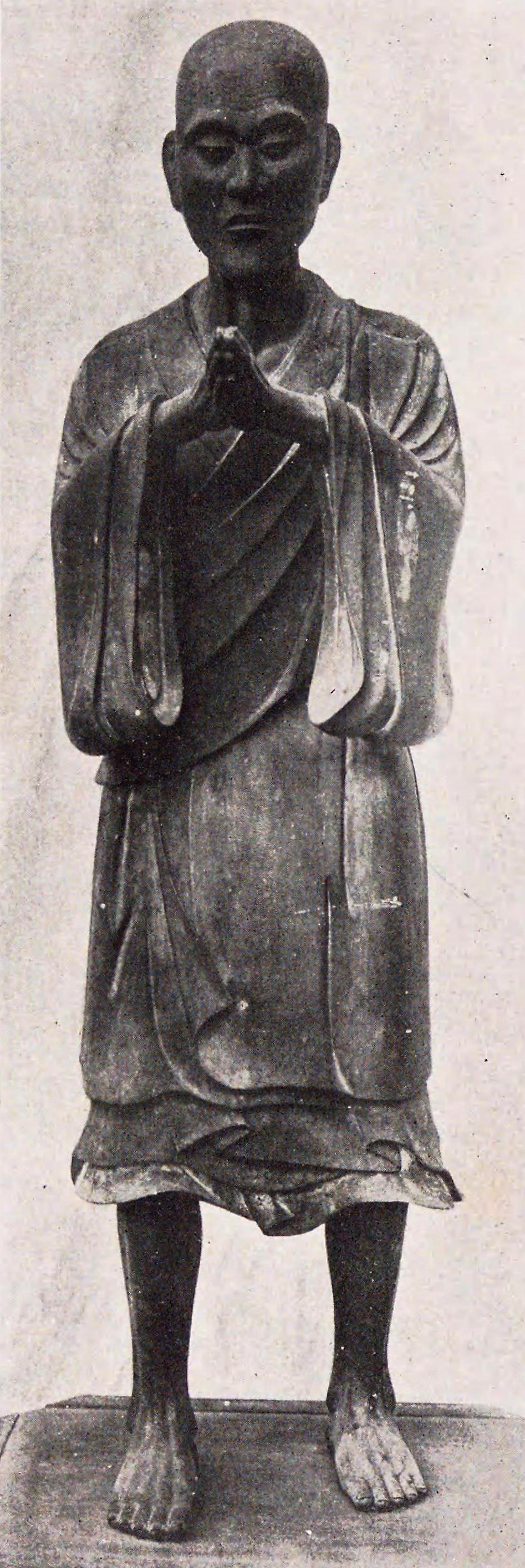 A statue of Ippen made in 1475 at Hōgon-ji, Matsuyama, Ehime prefecture. It was an Important Cultural Property of Japan but lost in 10th August 2013 by fire.